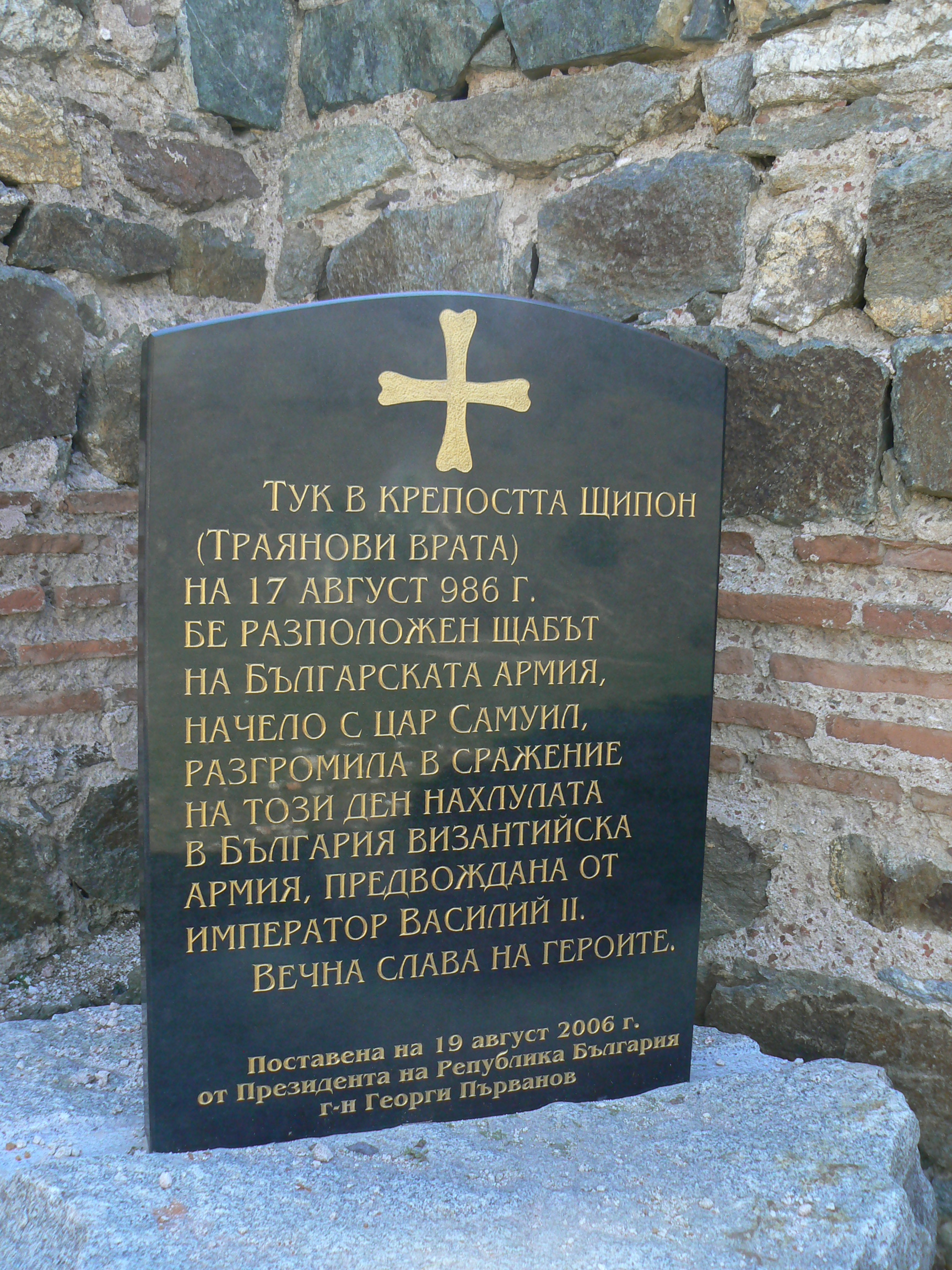 Memorial plaque at the entrance of Trayanovi vrata fortress